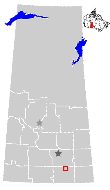 Location of Weyburn, Saskatchewan